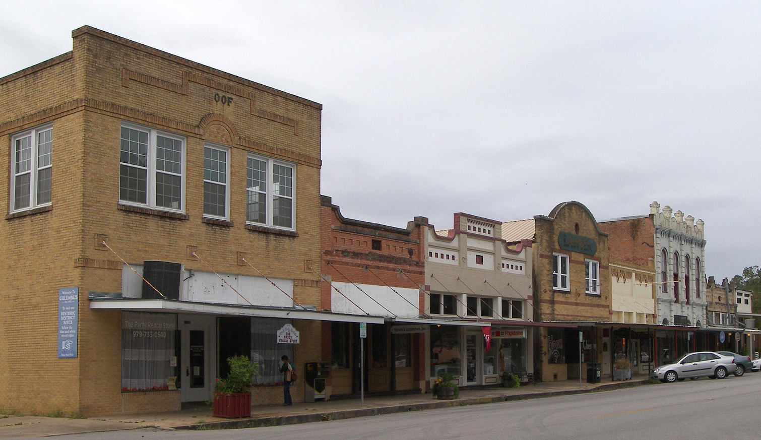 The Colorado County Courthouse Historic District located in Columbus, Texas, United States. The area was listed on the National Register of Historic Places on June 23, 1978.